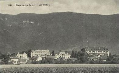 Postcard of France - Department of Ain (01) - Divonne-les-Bains, the hotels - unknown Year, approximately 1920